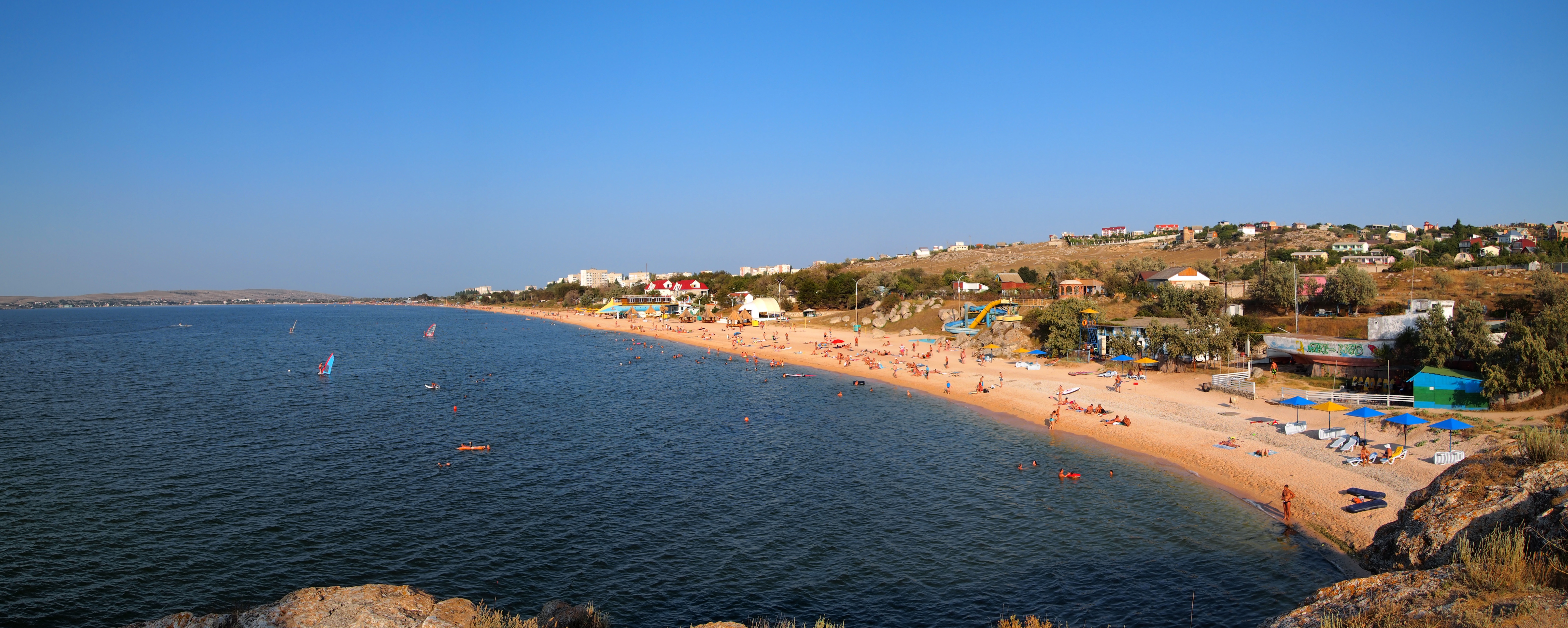 View to the beach of Shcholkine. On the left is the headland Kazantyp. This photograph was taken with an Olympus E-PL1